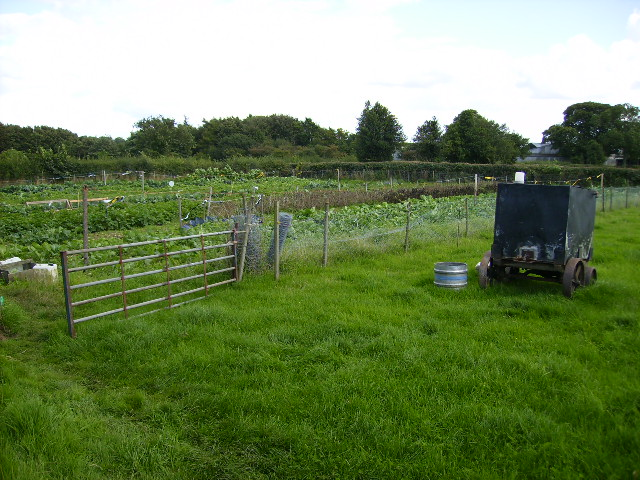 Vegetable smallholding with old mobile water bowser.